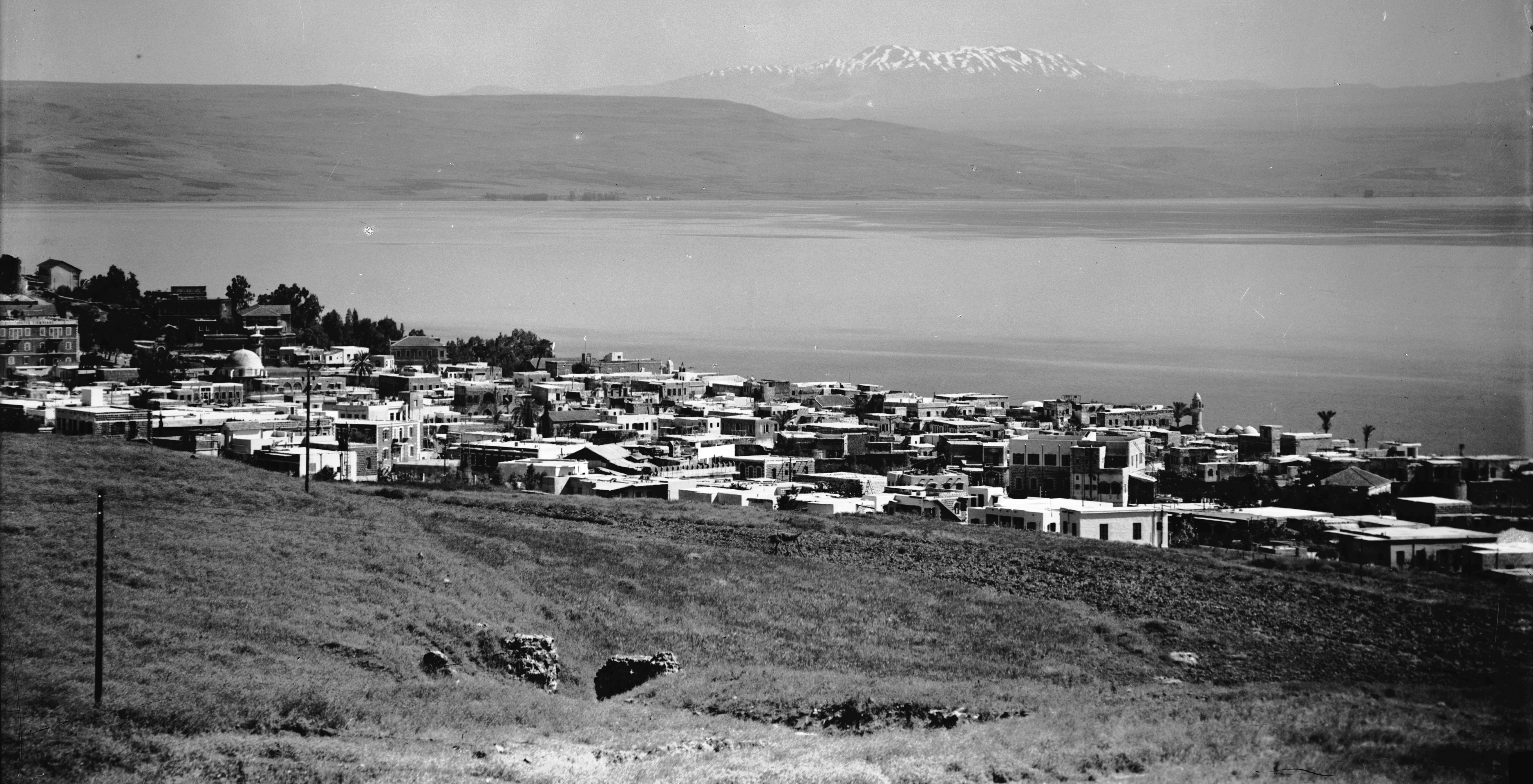 Tiberias and Mt. Hermon.